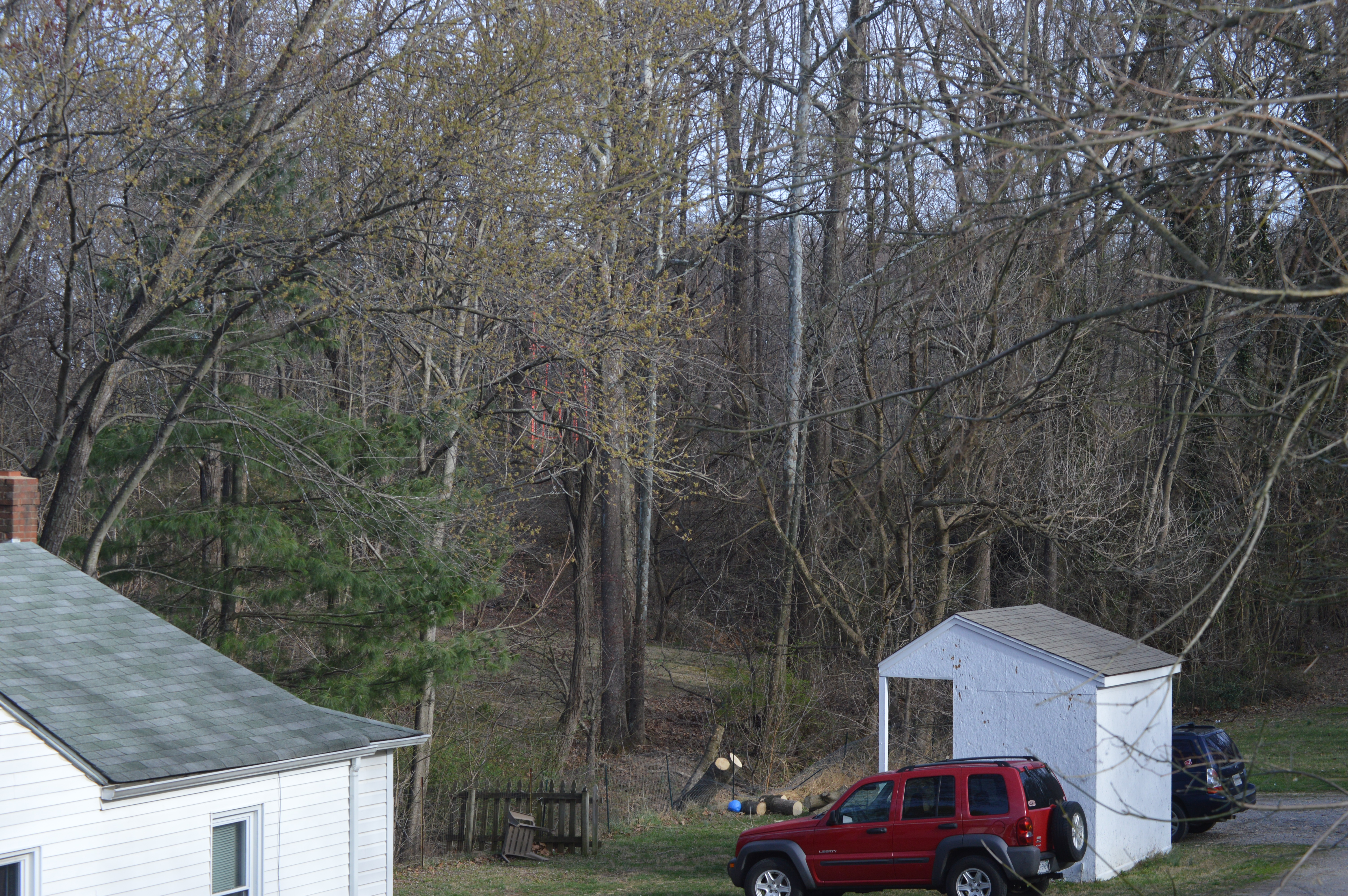 Looking through the trees along Mill Road toward the Valley Railroad Bridge, which spans Gish Branch in Salem, Virginia, United States. The bridge is listed on the National Register of Historic Places.